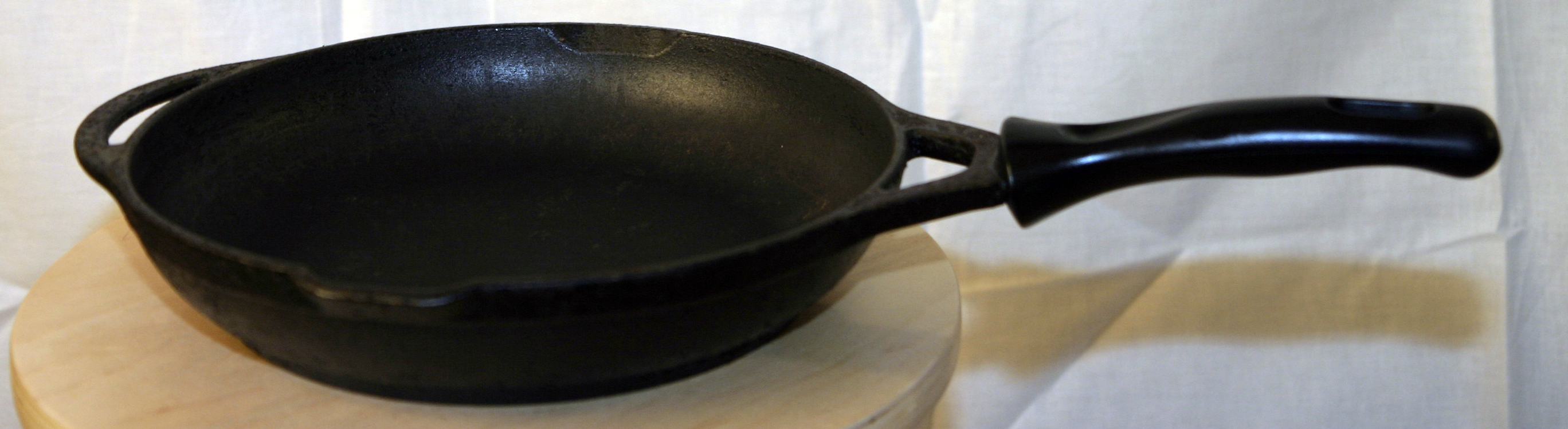 Frying pan